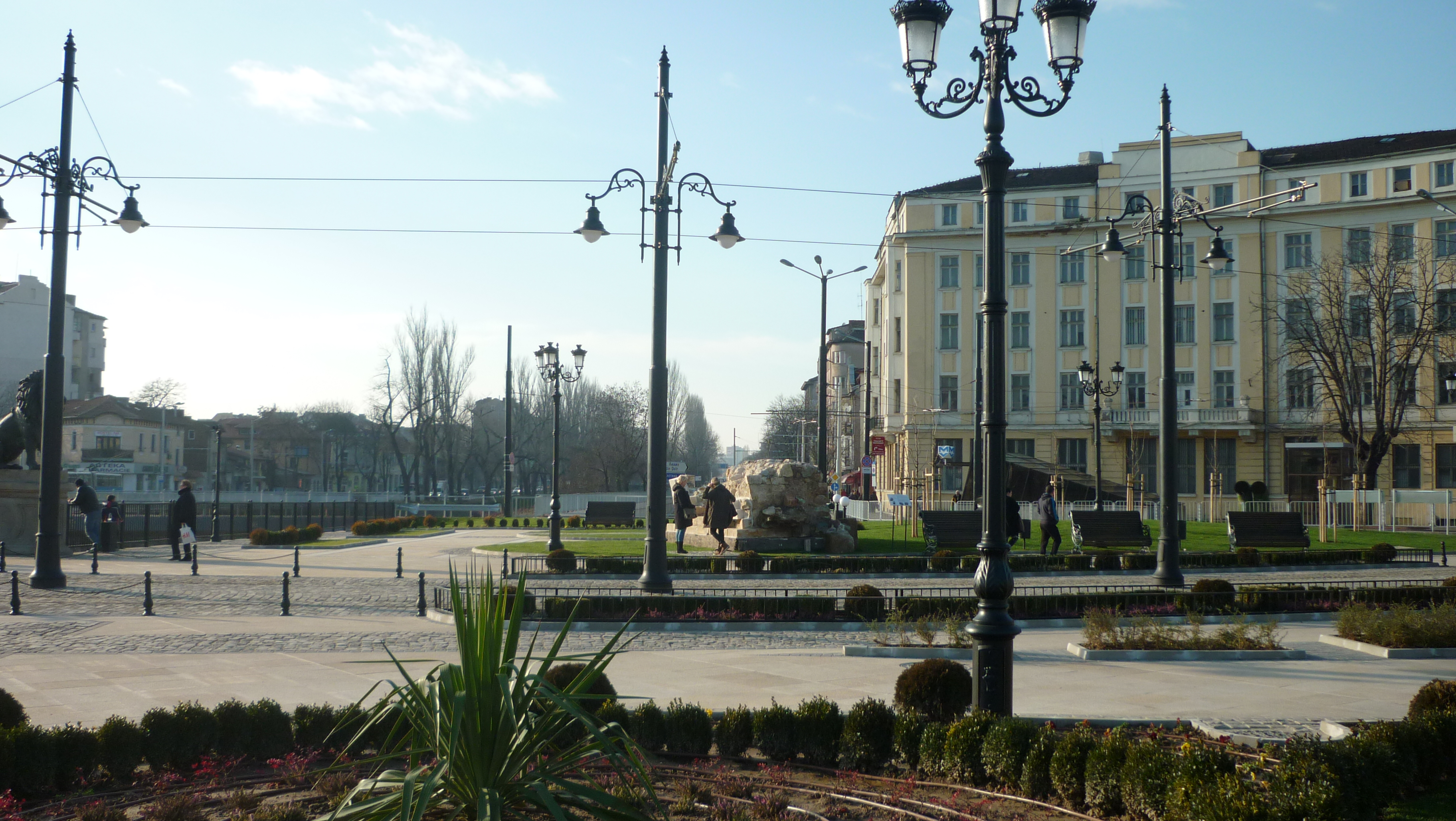 View of Lavov most, Sofia